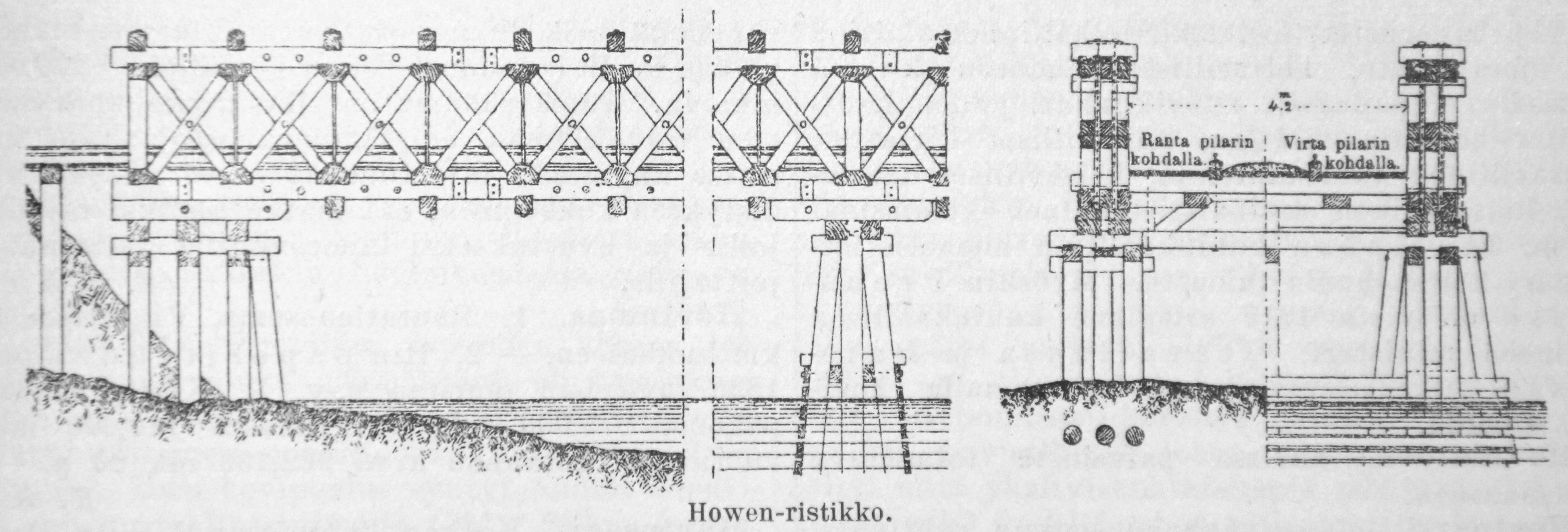 Howe truss. Photo taken from the book Tietosanakirja (1909) Part 3; the drawing also in the internet: Tietosanakirja